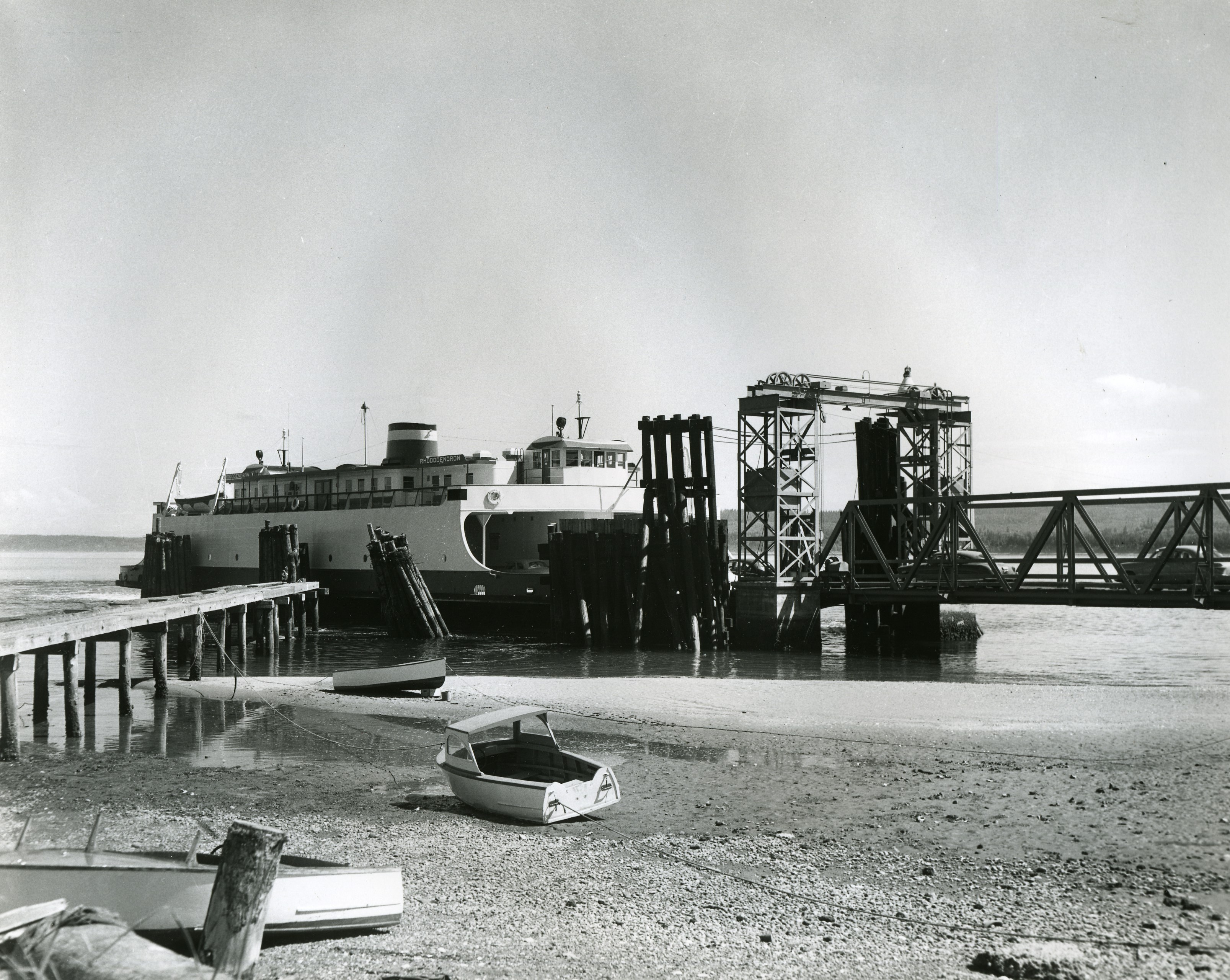 Here is a photo of what I believe is the Washington State Ferry, M/V Rhododendron. The photo dates from the middle 1950s. Washington State acquired this ferry in 1953 from Maryland’s Chesapeake Bay. This ferry is still in service in Purget Sound, Washington.